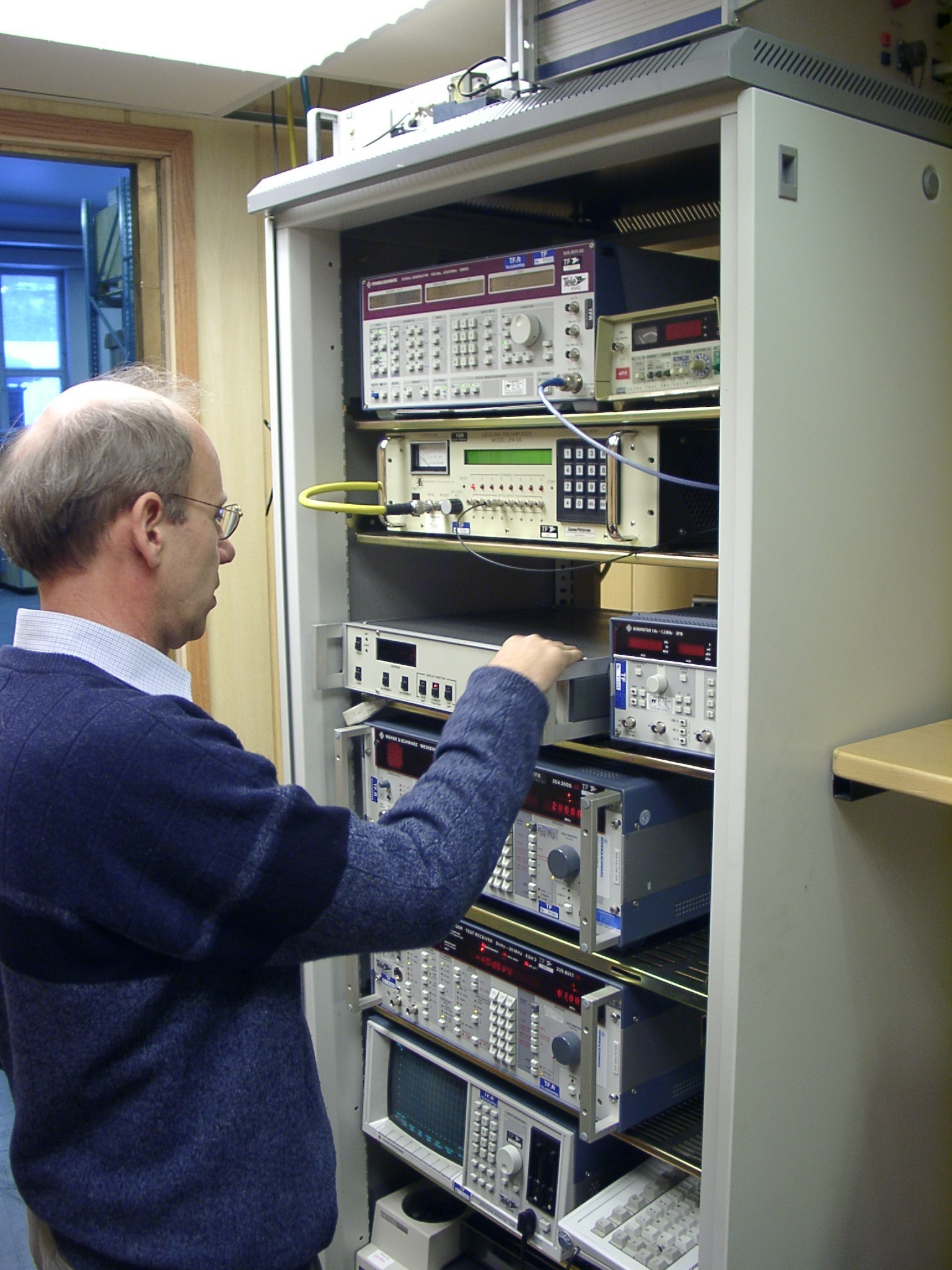 Radio equipment rack for GSM and UMTS mobile base station. Telenor, Norway